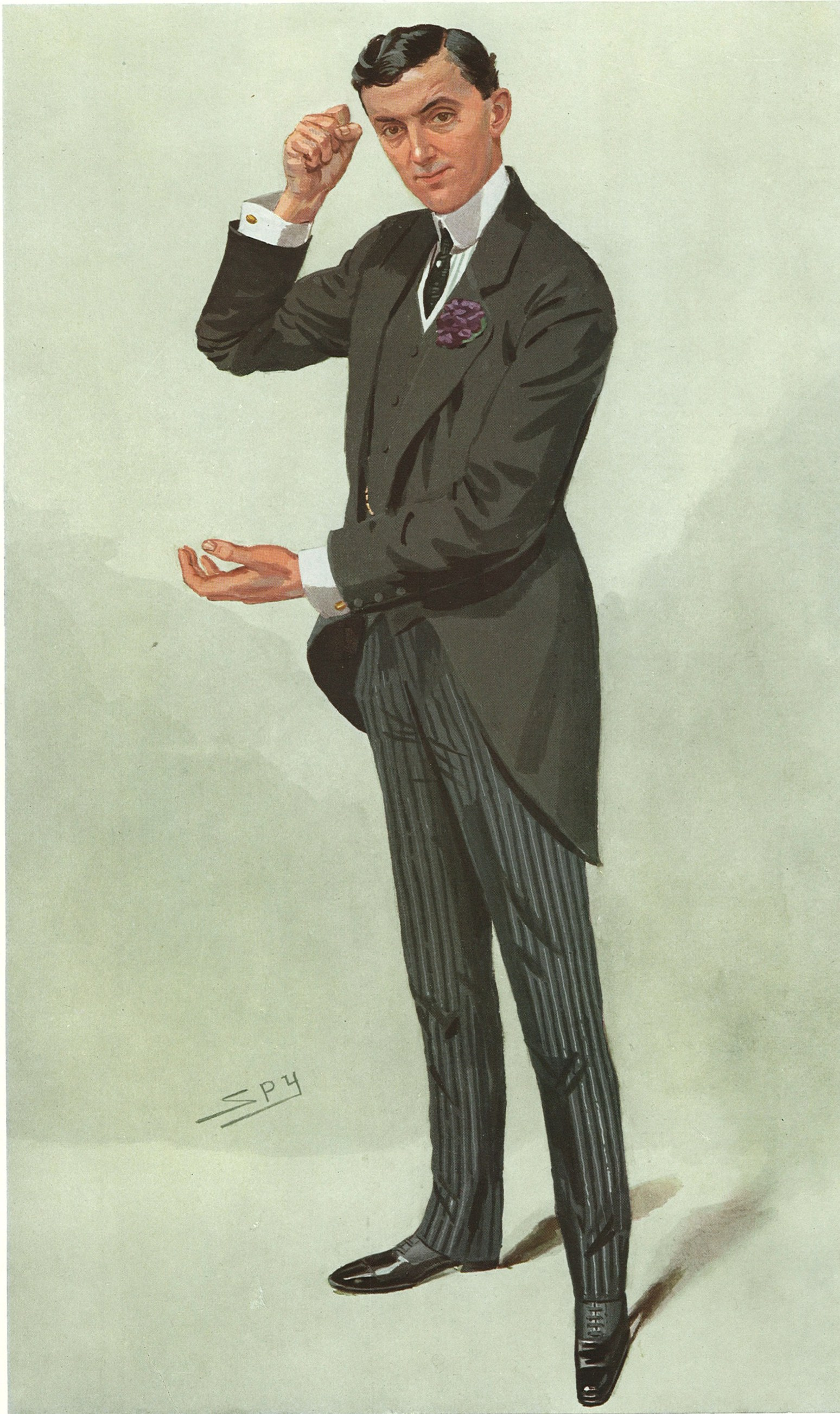 Caricature of Edward G. Hemmerde - Vanity Fair - May 19, 1909. Caption reads "The New Recorder".